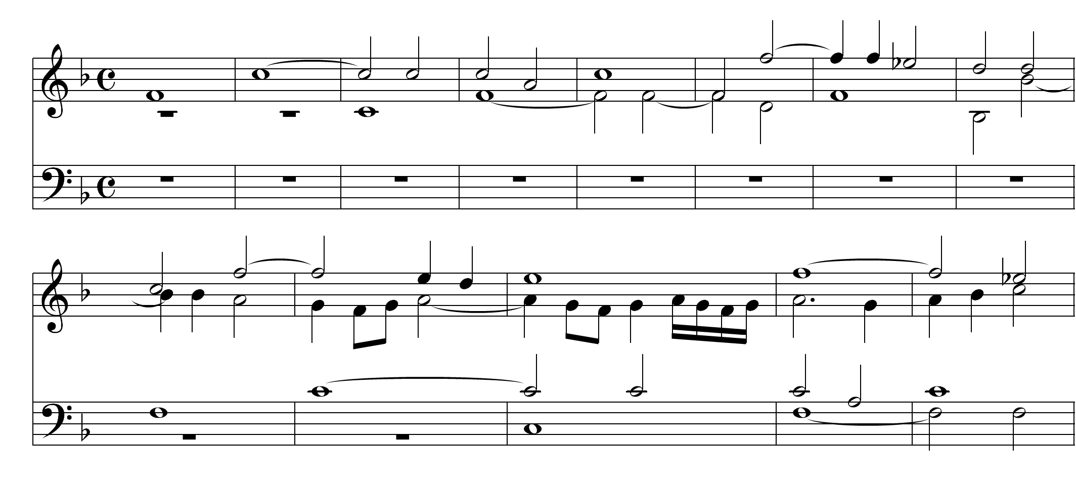 example of spanish organ tablature, transcribed into modern notation